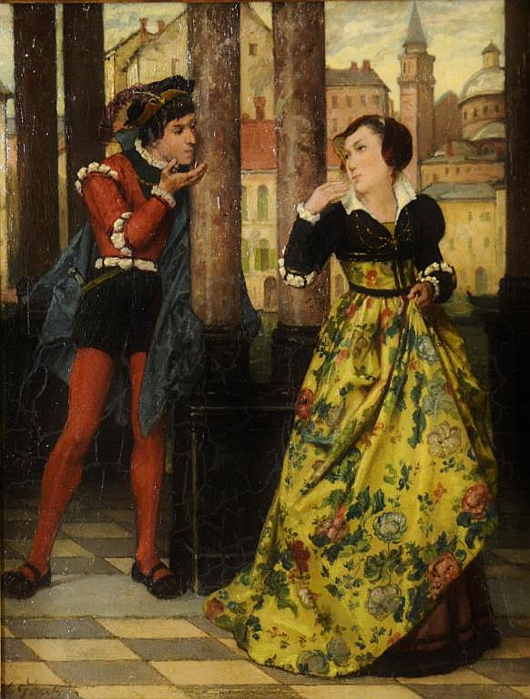 Blowing a kiss